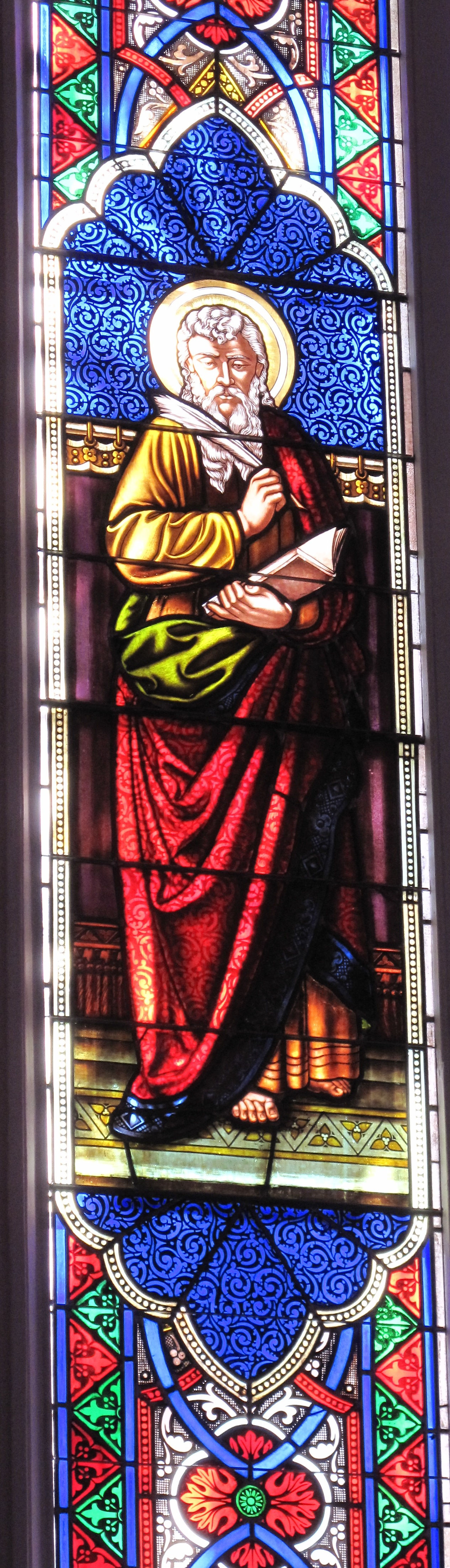 The St. Matthew window by Henry E. Sharp & Sons (1872) at St. Matthew's Lutheran Church in Charleston, South Carolina.